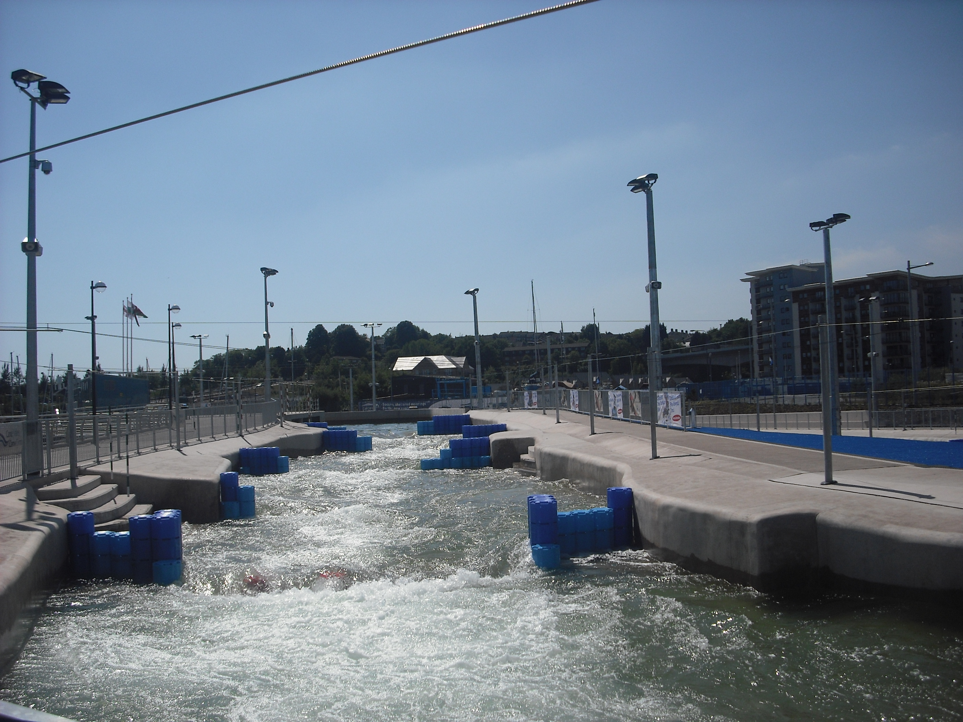 The course at Cardiff International White Water